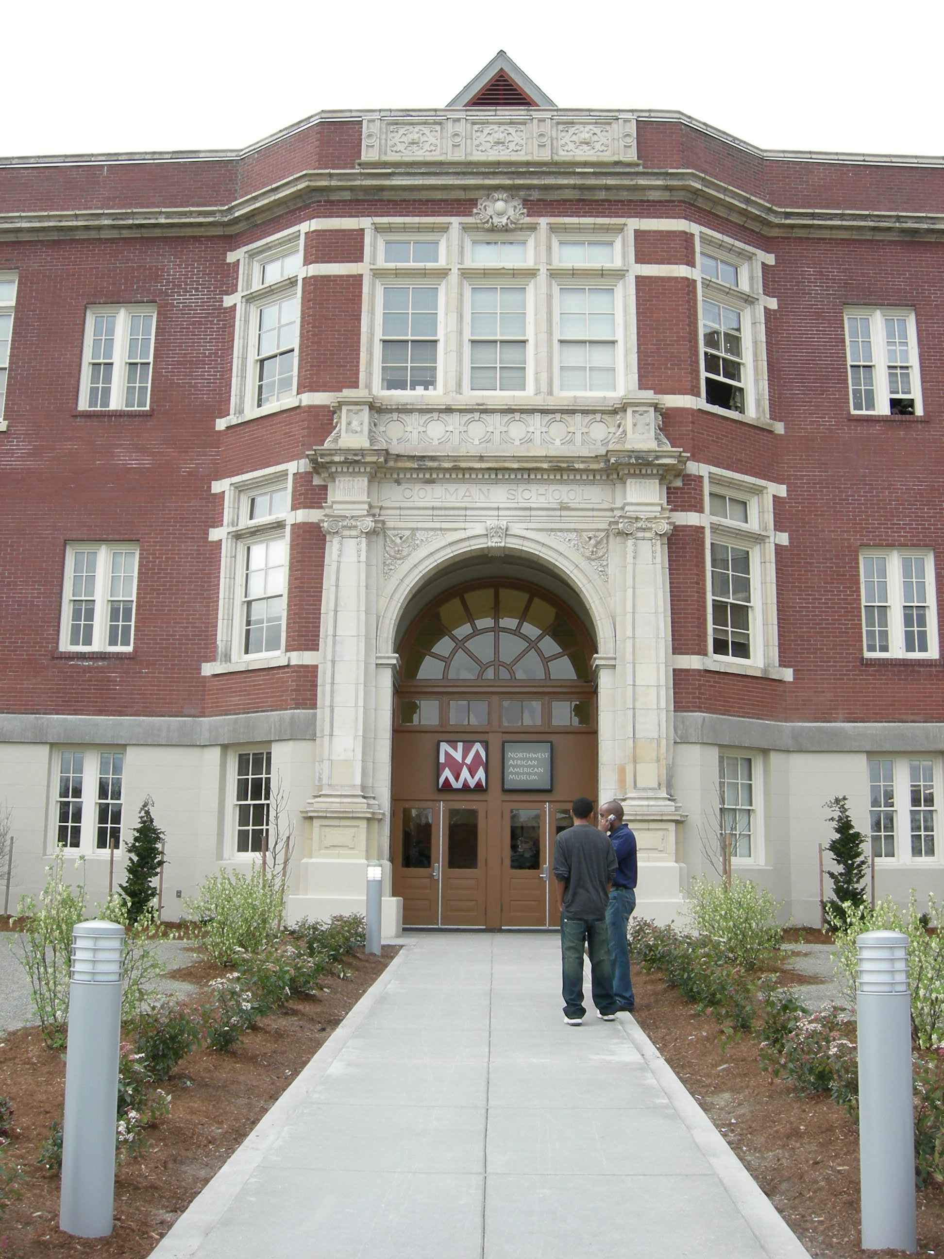 Northwest African American Museum (the former Colman School), Jimi Hendrix Park, Seattle, Washington.